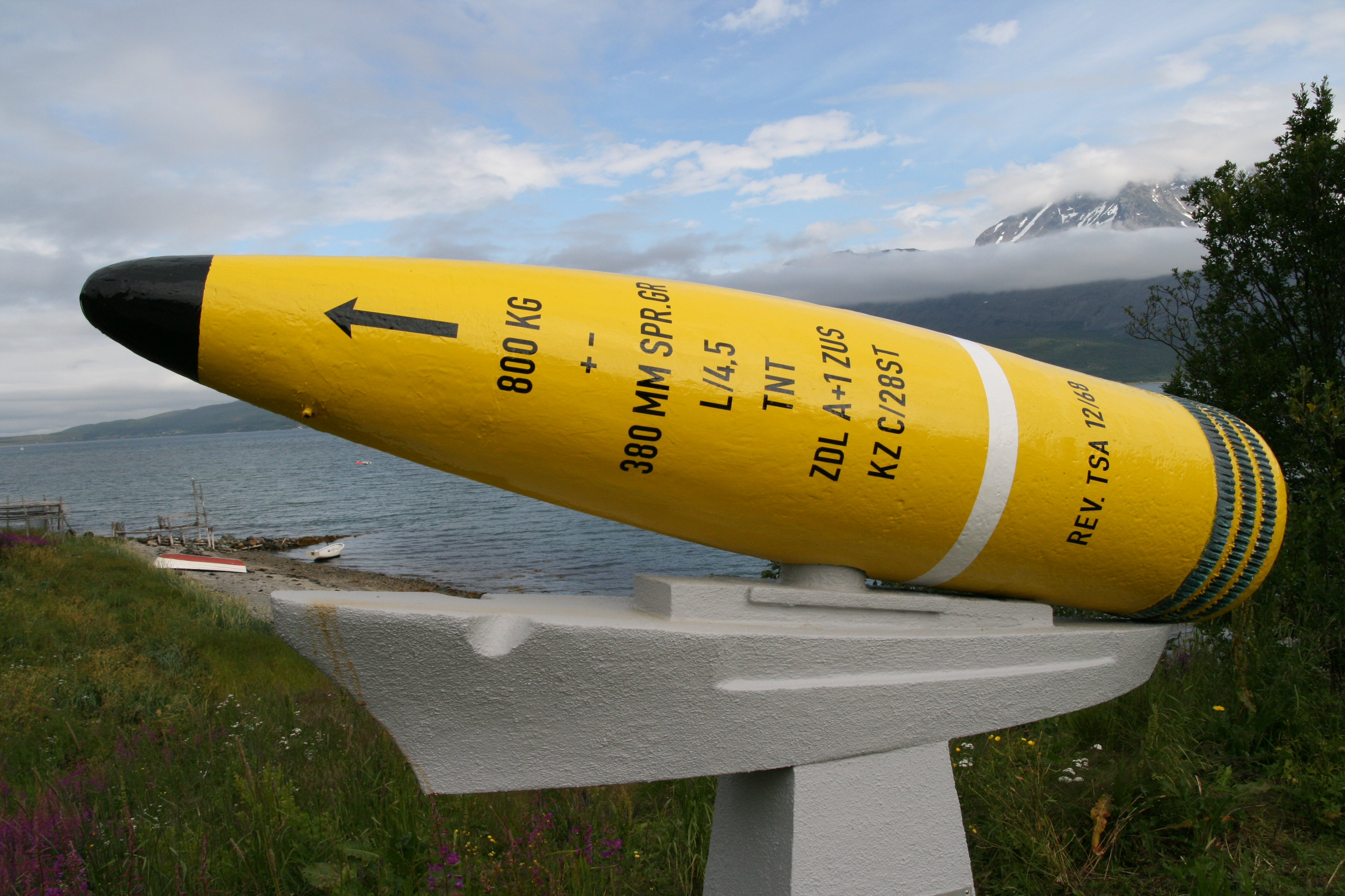 Shell from the German battleship Tirpitz, fired 1944-10-29. The shell was found unexploded in 1968 in Ullsfjord, Norway.